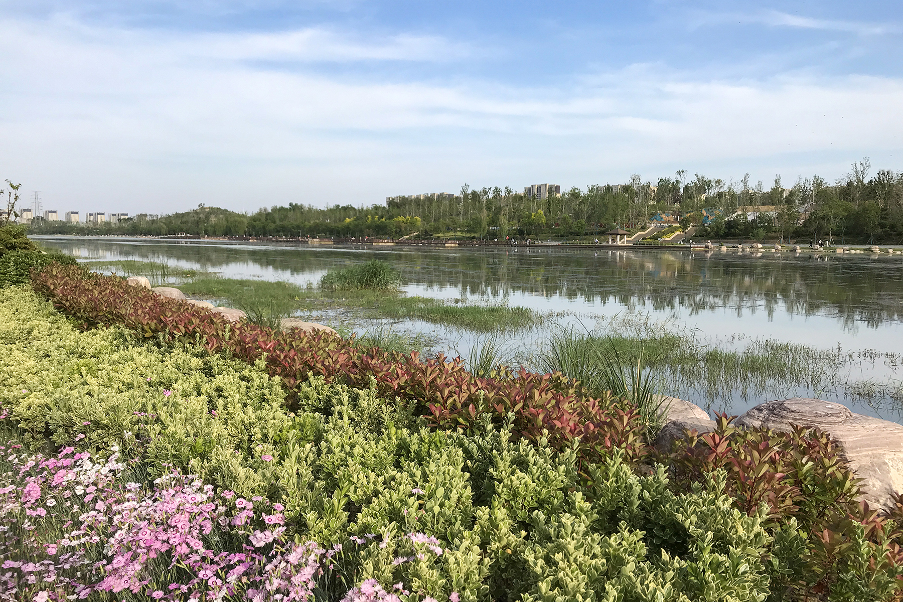 Jialu River in Huiji District, Zhengzhou